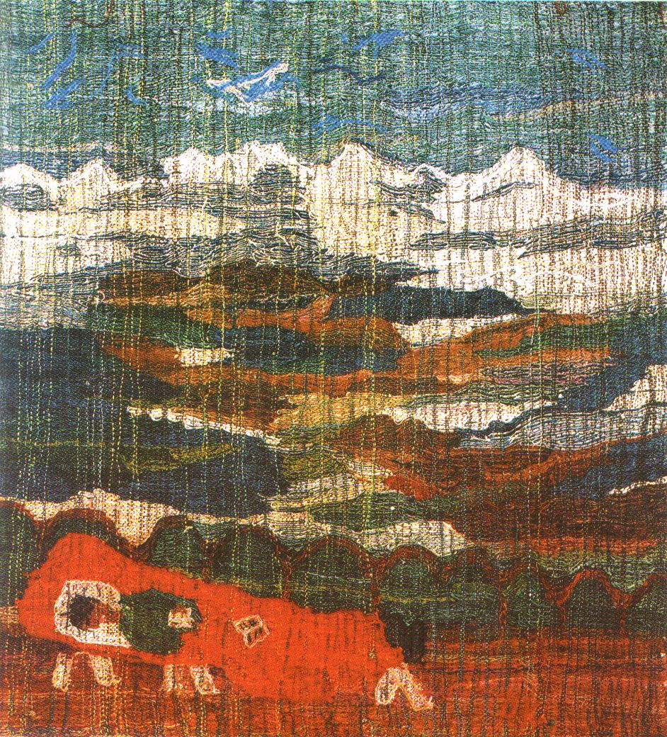 Tkanina Urszuli Kołaczkowskiej "Sanatorium", 2001